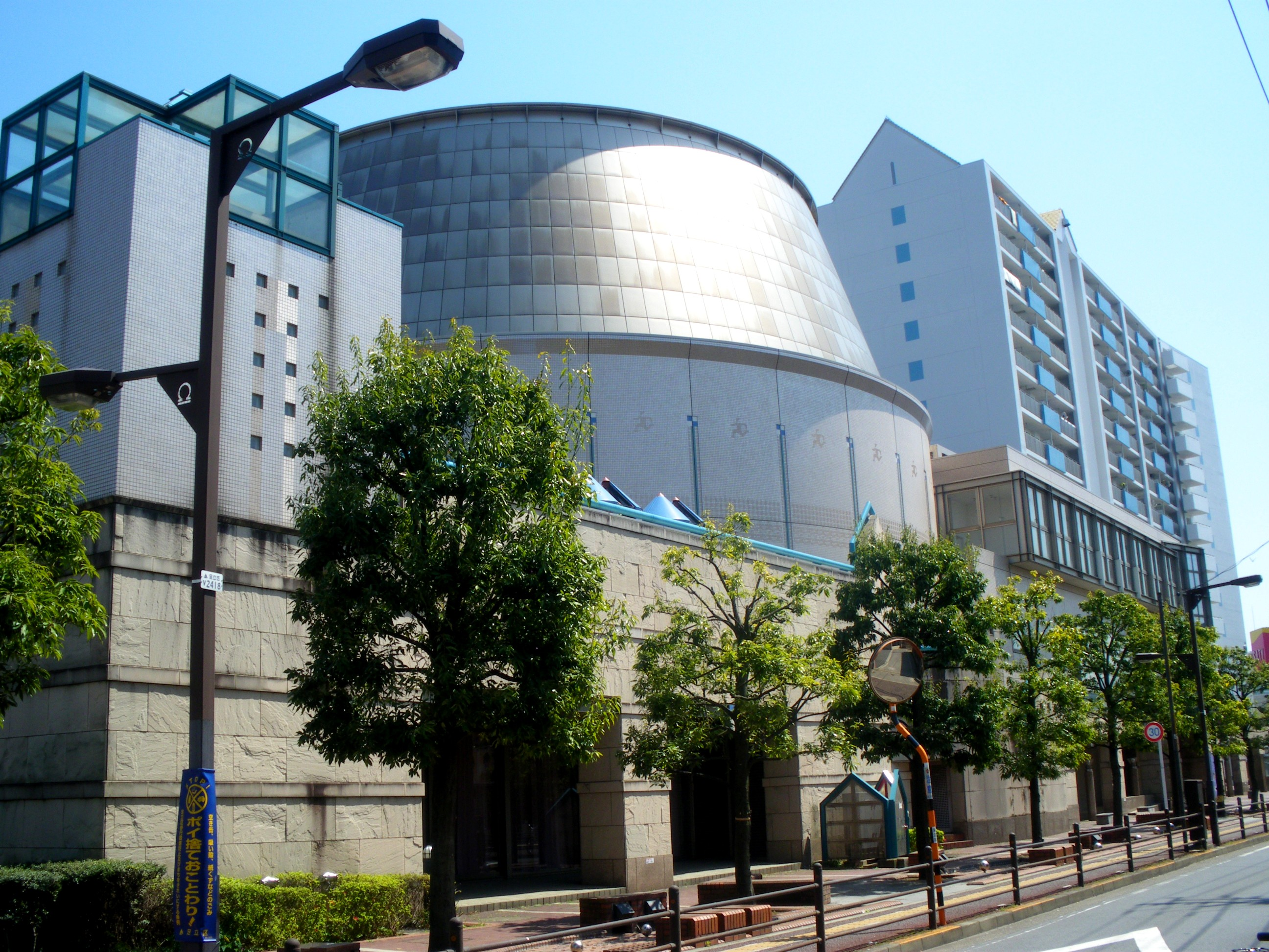 Gyarakusiti(Adachi,Tokyo)